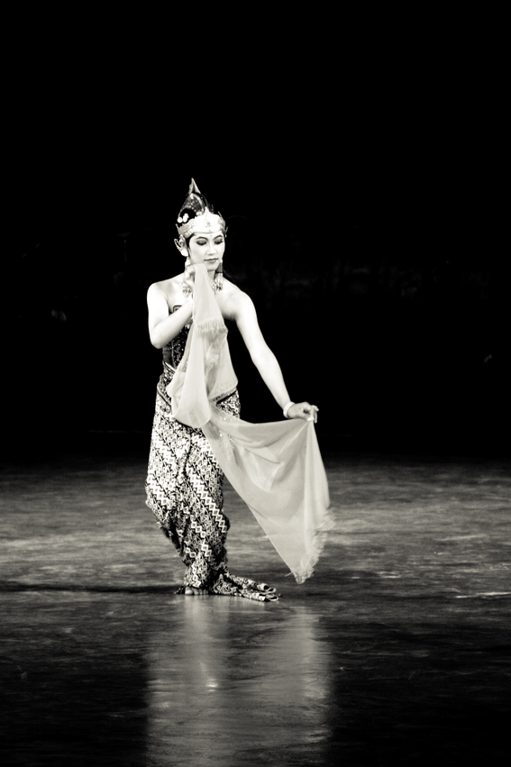 Shinta (Sita) from a Ramayana dance performance at Prambanan temple near Jogjakarta on Java in Indonesia.